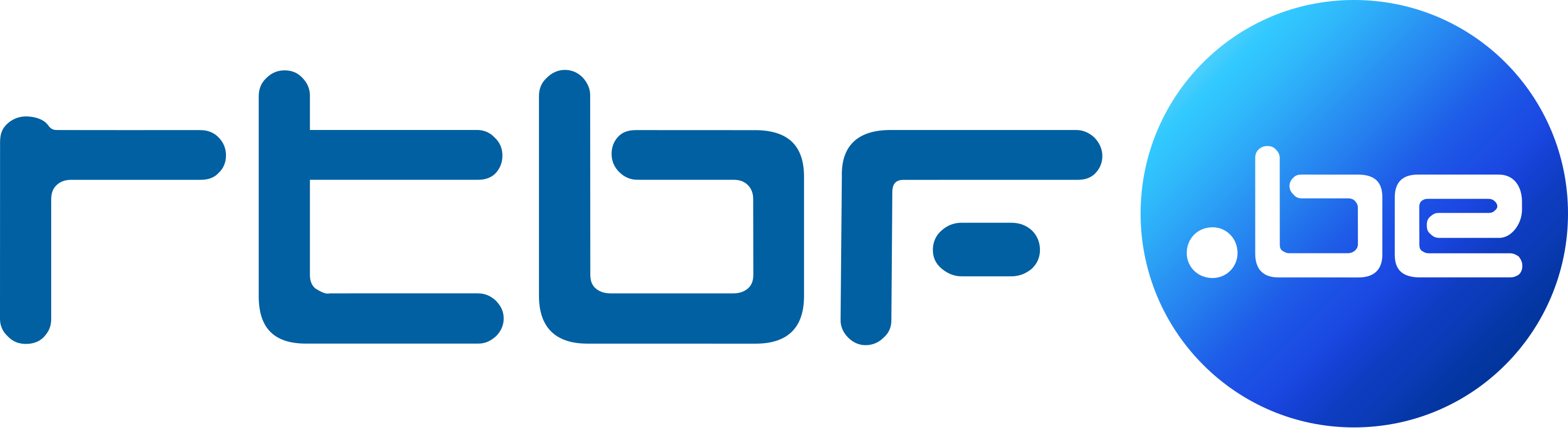 Logo of RTBF